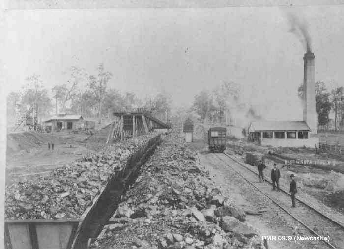 East Greta No1 Tunnel Colliery, near Maitland, New South Wales, Australia